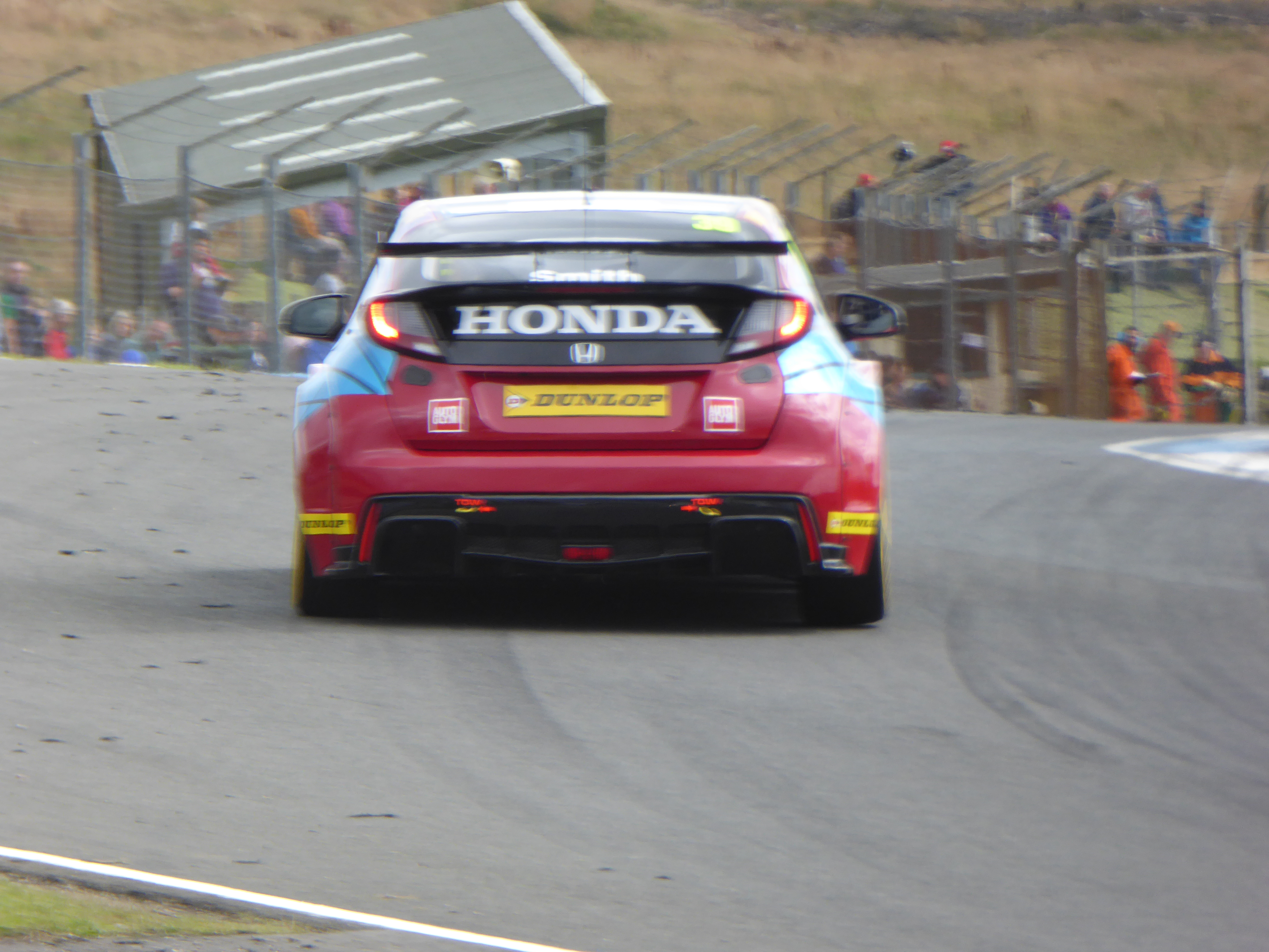 Brett Smith (Eurotech Racing), pictured at the Knockhill round of the 2017 British Touring Car Championship.